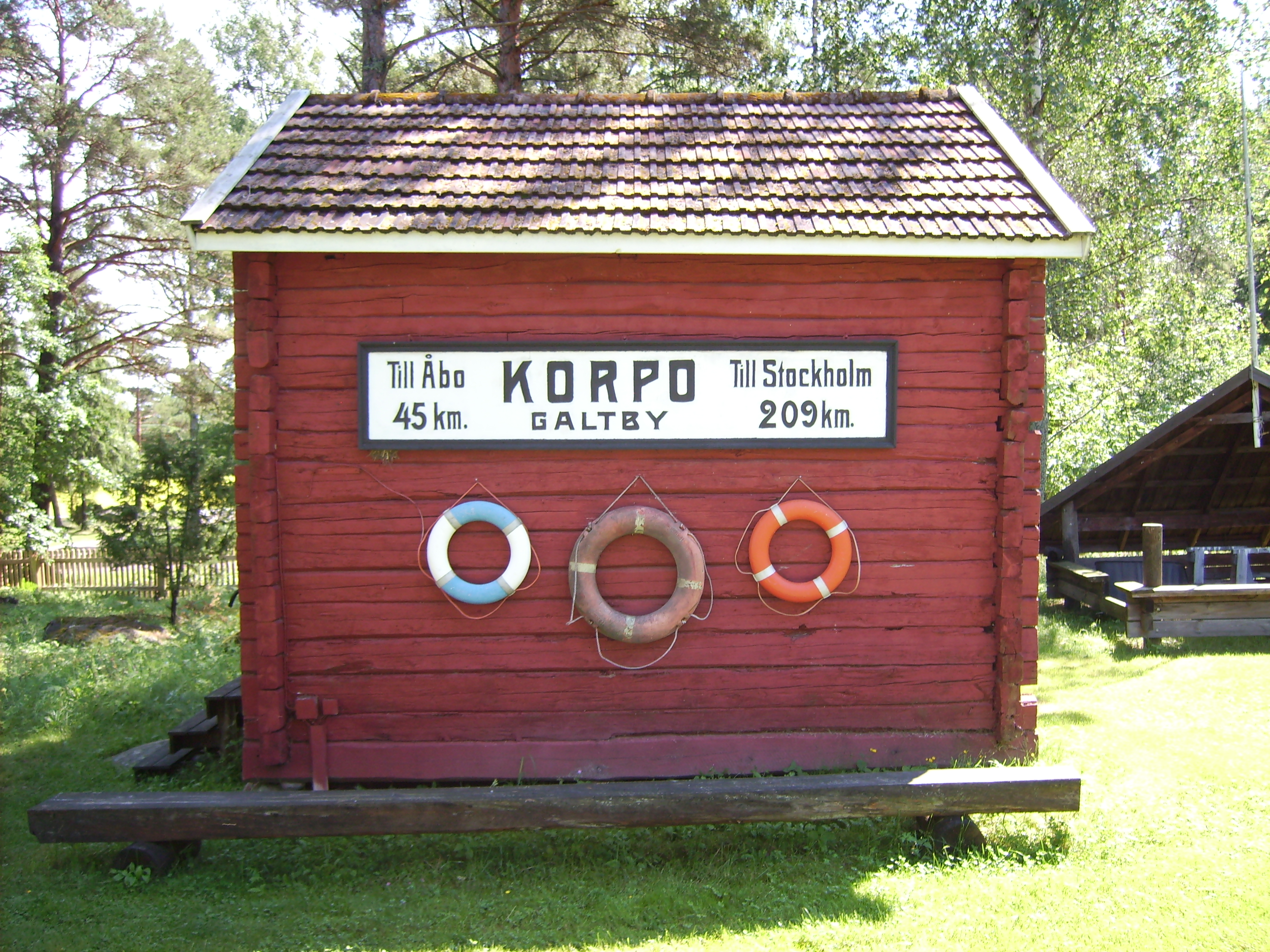 The folk museum in Korpo, Finland.